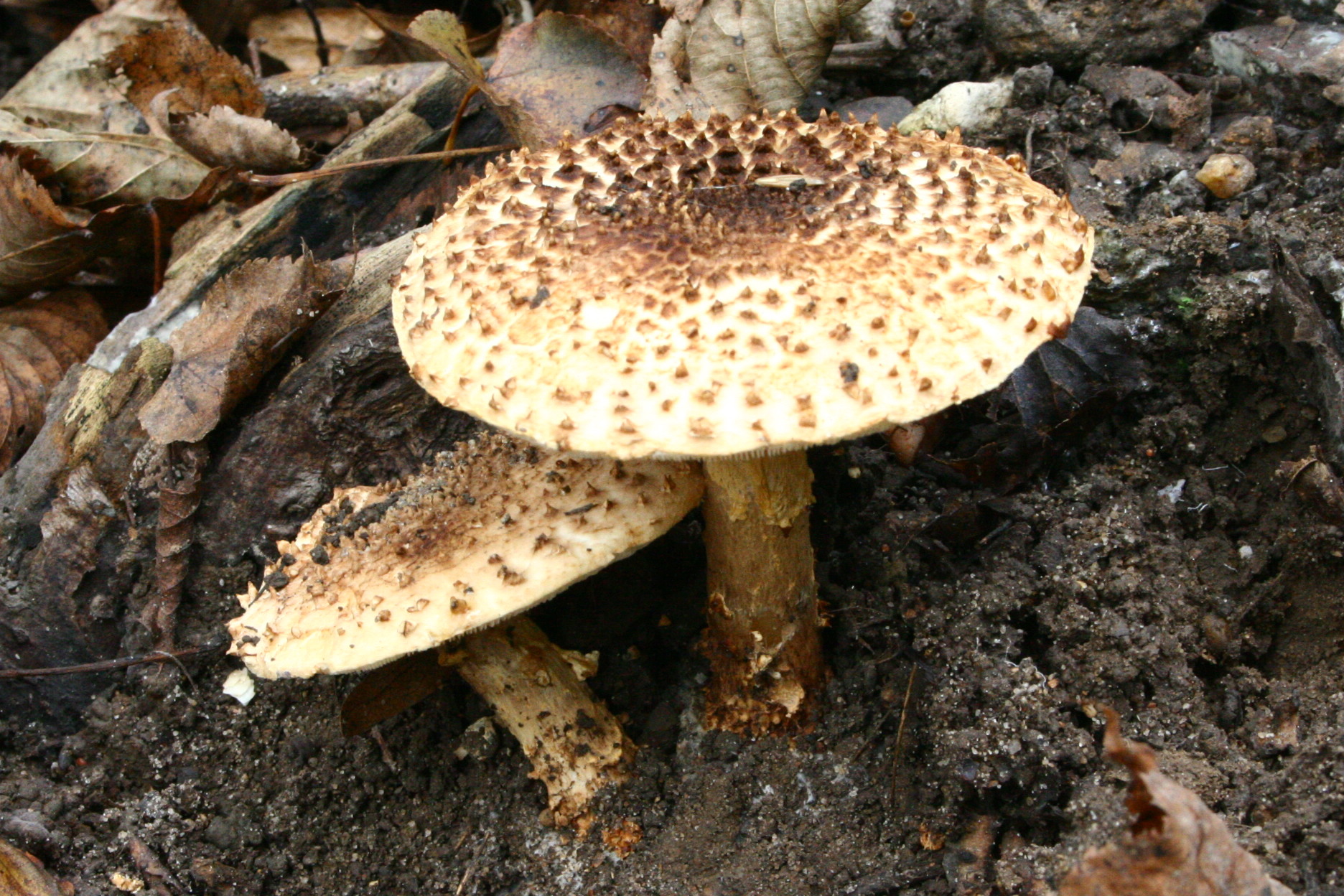 Echinoderma asperum in a wood near Évry, France.